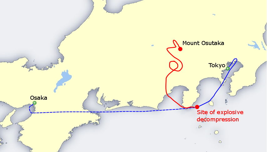 Route of Japan Airlines Flight 123 (English)